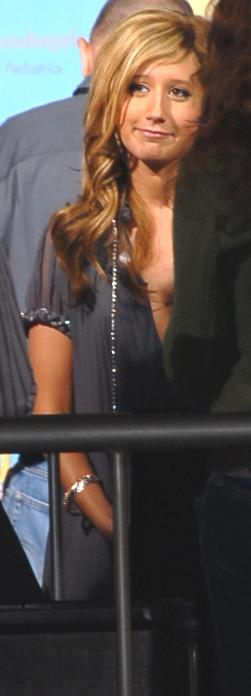 Ashley Tisdale at a screening for High School Musical II